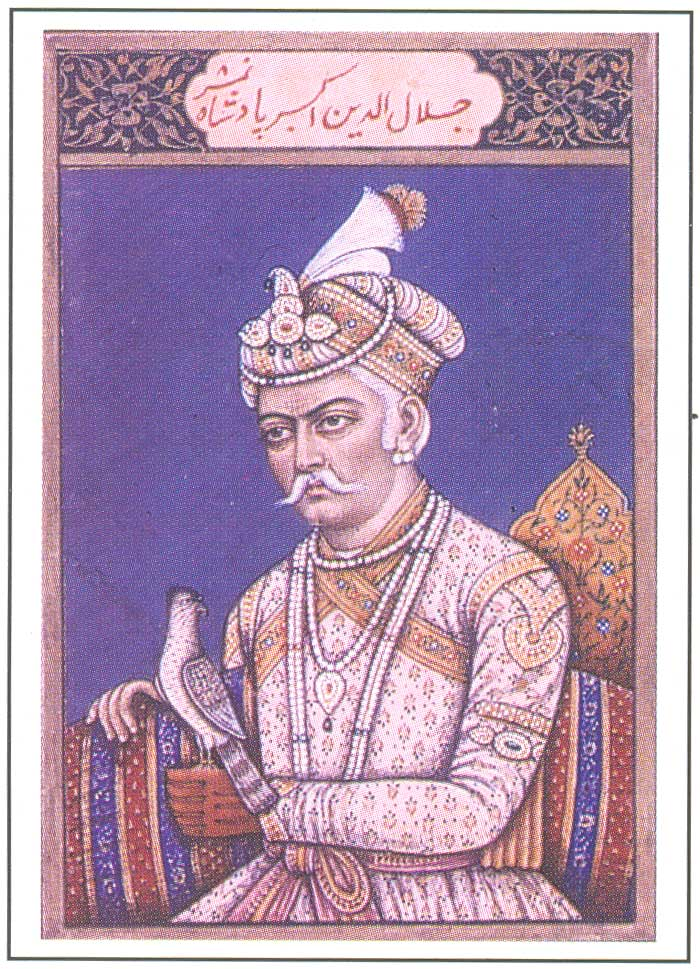 Mughal Emperor Akbar (1556-1605), National Museum, New Delhi